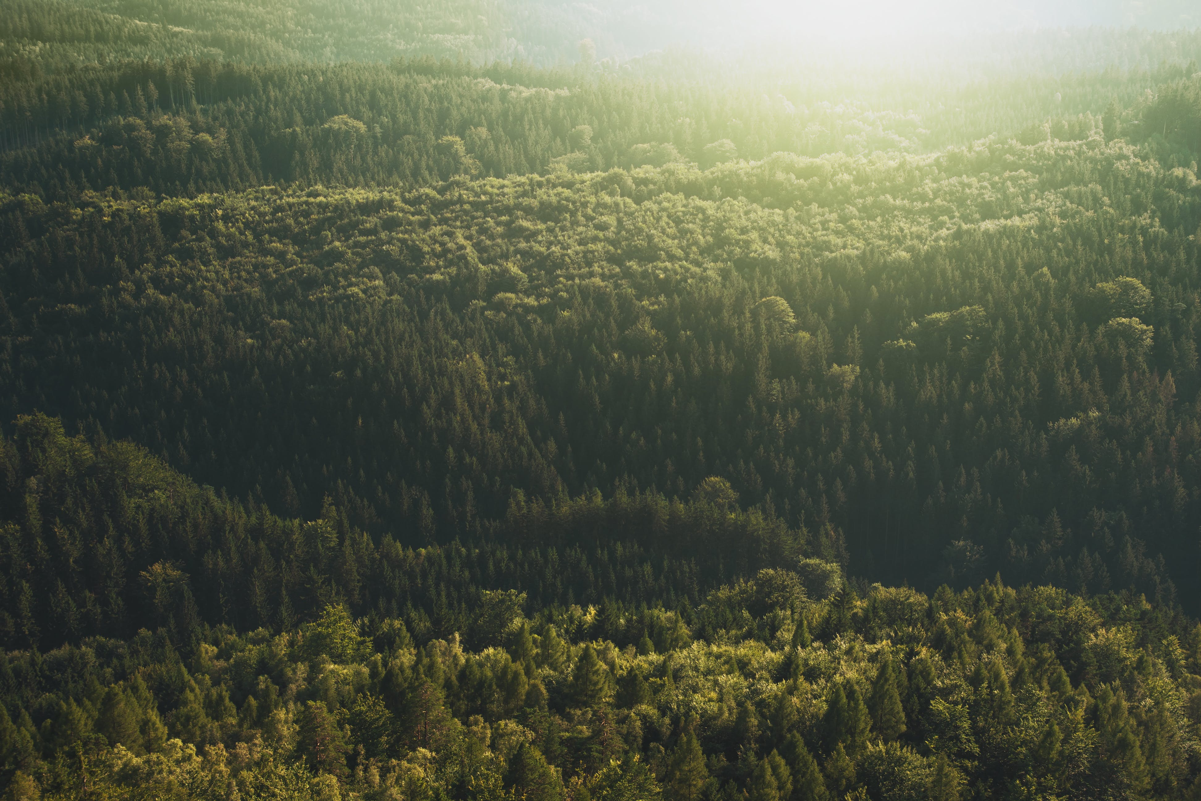 A beautiful forest view.